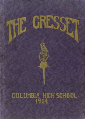 The Kewpie was the mascot of the Columbia High School Team. This was first published in 1914 in the Columbia High School yearbook.